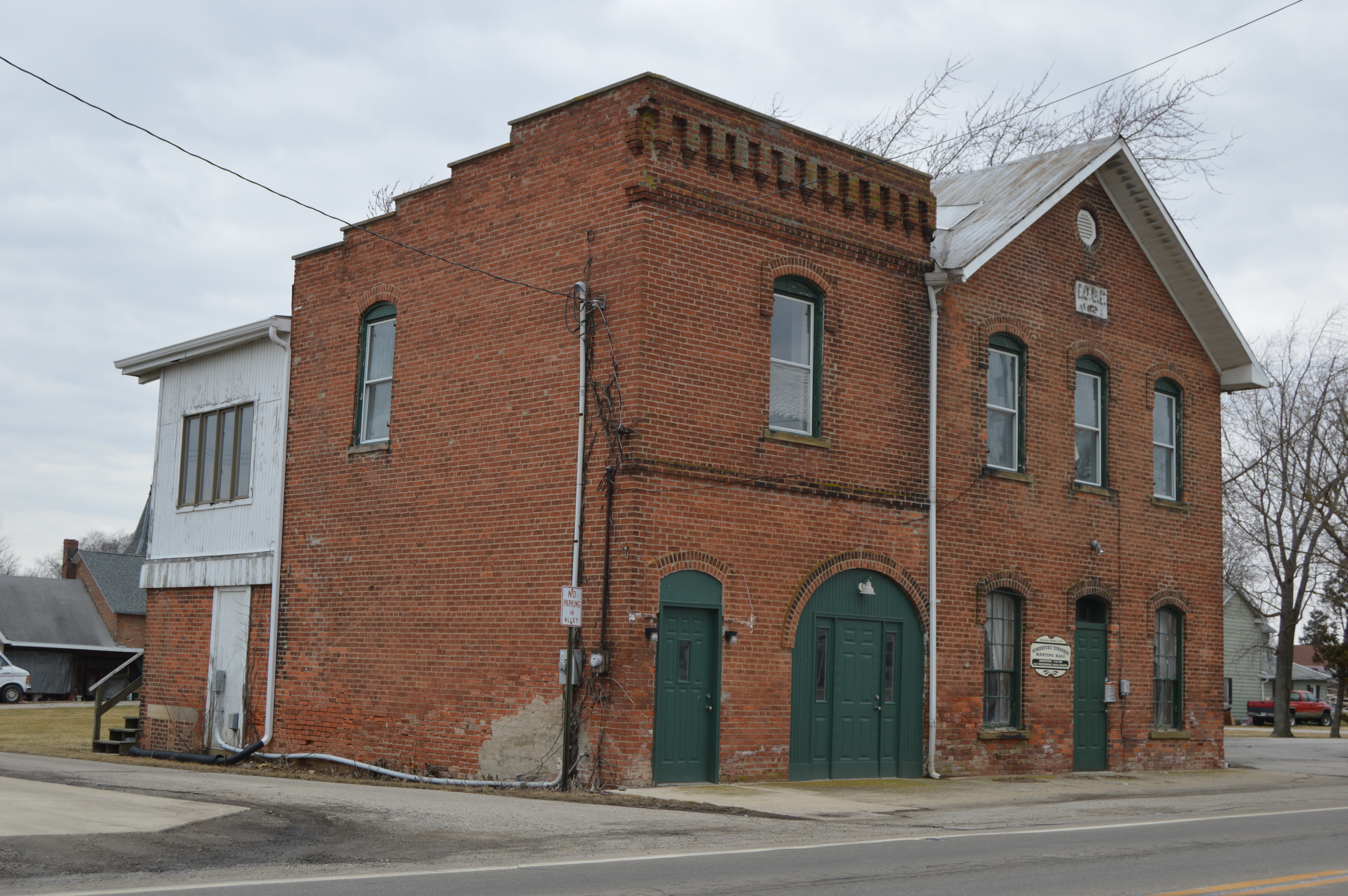 Front of the Somerford Township Hall (formerly the local IOOF lodge building), located on State Route 56 just south of Old U.S. Route 40 at Summerford in Somerford Township, Madison County, Ohio, United States. It was built in 1871.